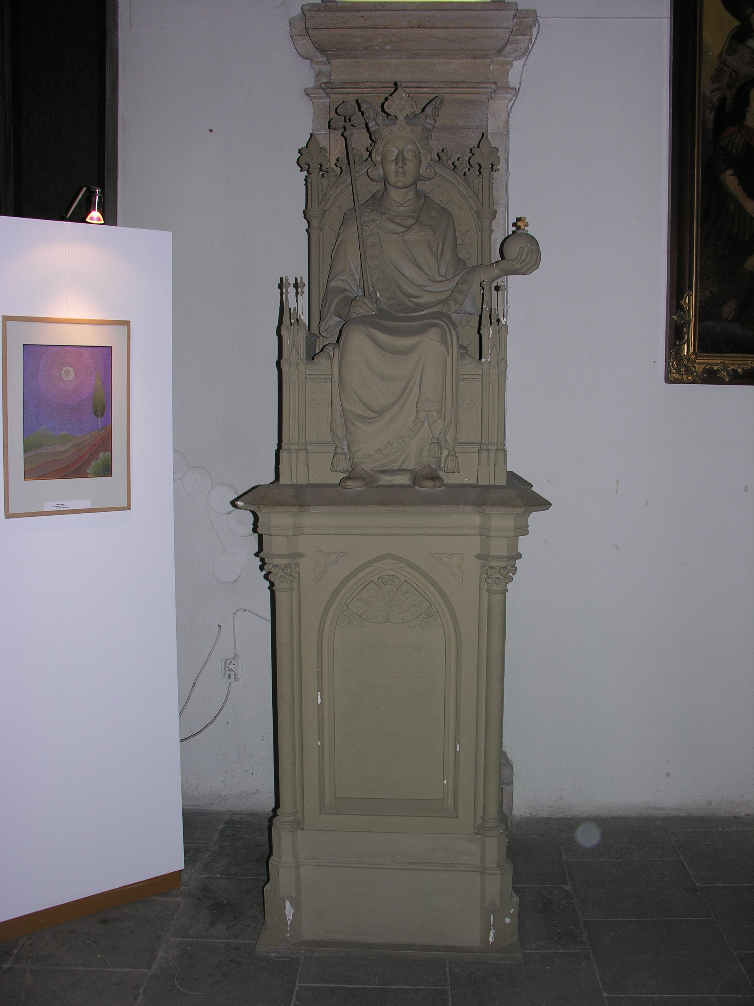 statue of Wenceslaus III of Bohemia in Olomouc